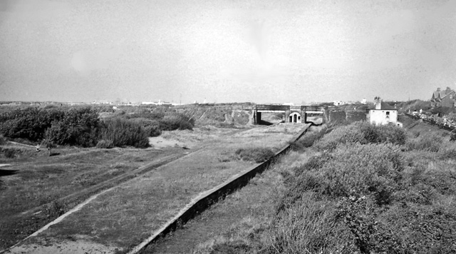 Birkdale Palace Station (remnants). Near to Southport, Sefton, Great Britain. View NE, towards Southport (Lord St.); ex-CLC Liverpool (Central)/Manchester - Aintree - Southport (Lord St.) line. Station, and line from Aintree (Central), closed 7/7/52.